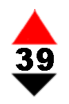 Bristol 39 sailboat's sail badge